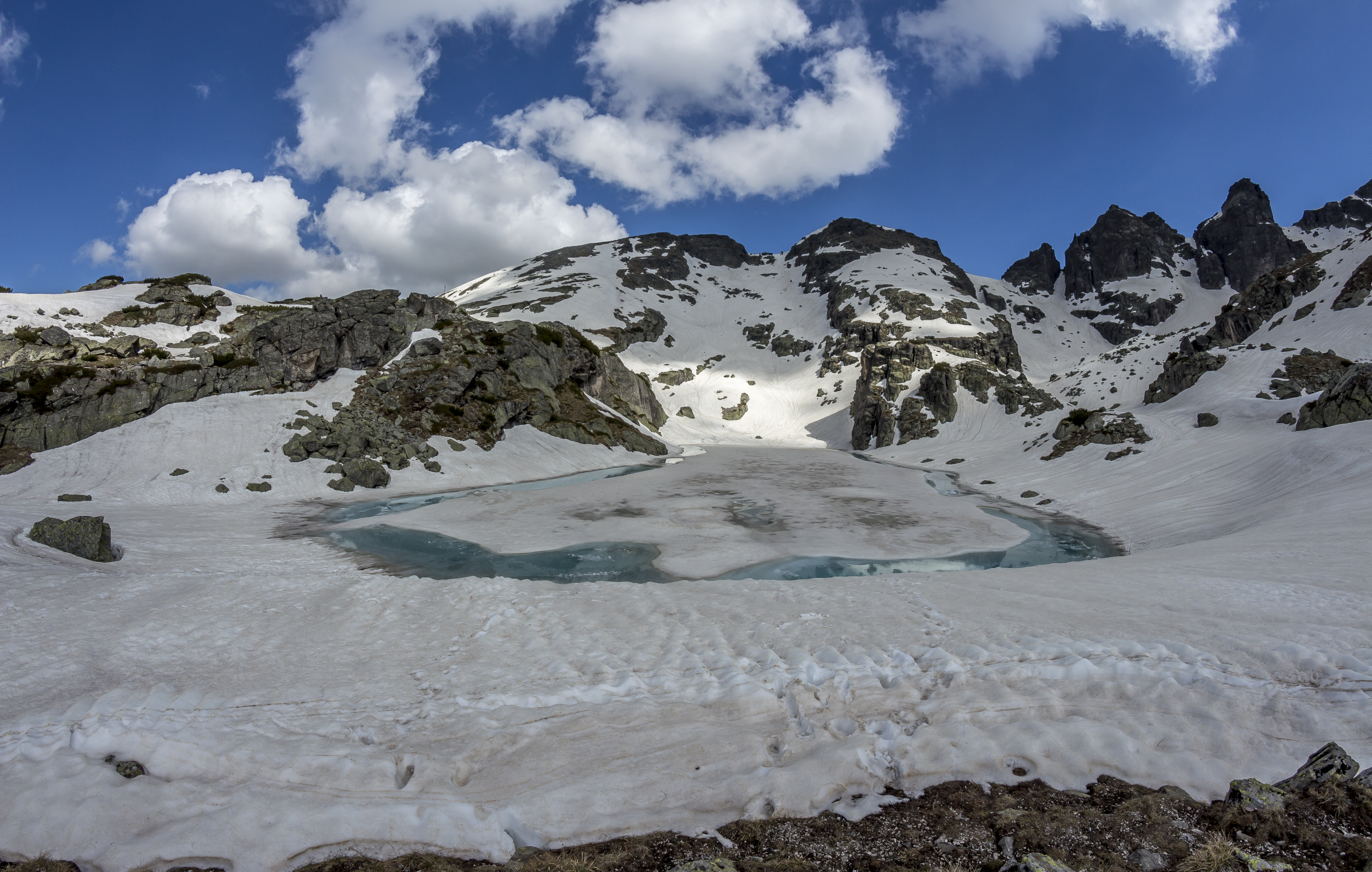 Strashnoto Ezero Lake (The Dreadful Lake), Rila National Park, Bulgaria